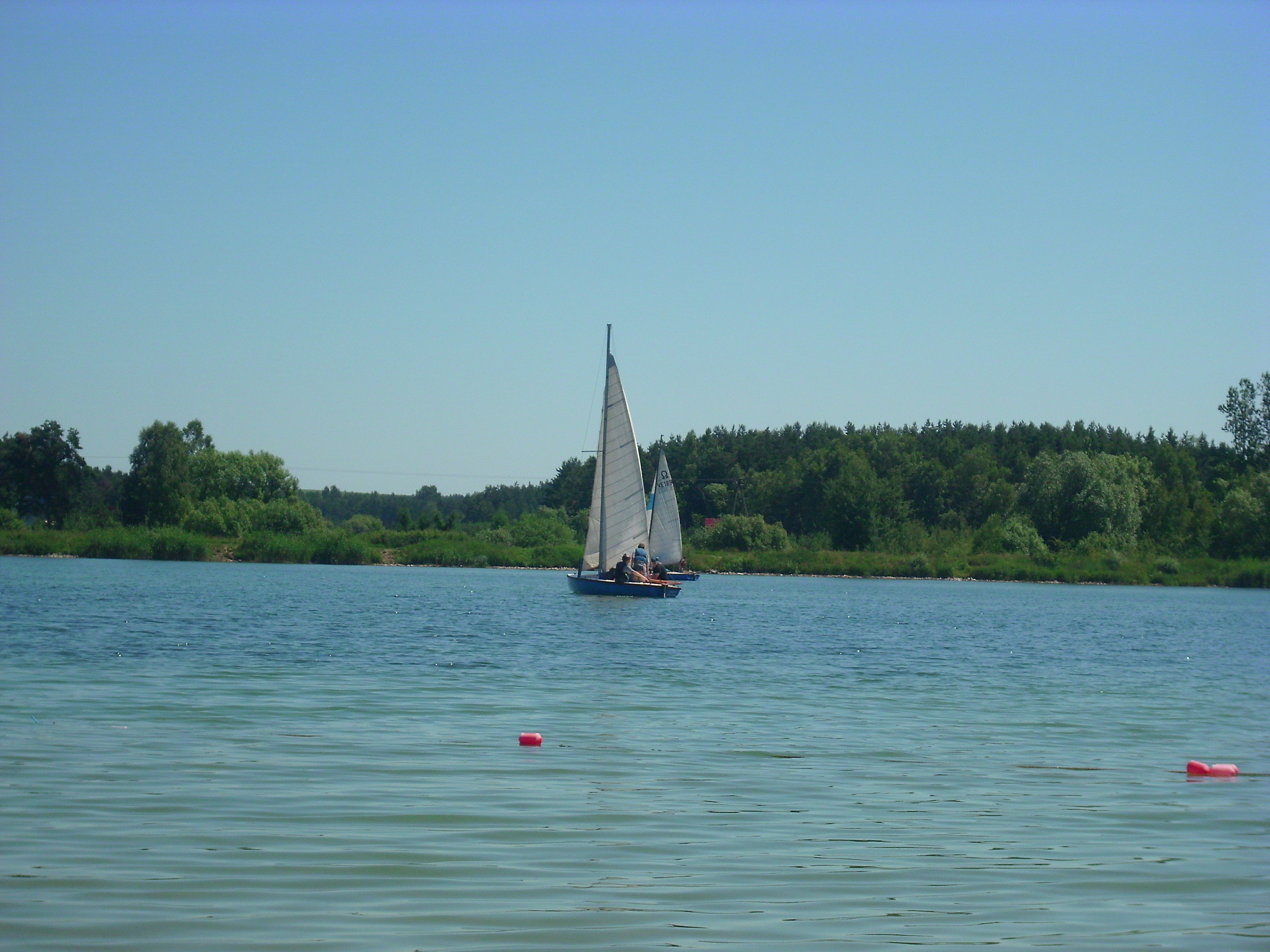 Artificial lake in Siamoszyce.